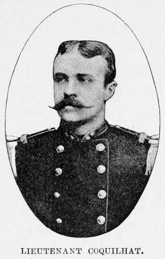 Pictures excerpted from HM Stanley's book "The Congo and the founding of its free state; a story of work and exploration (1885)"